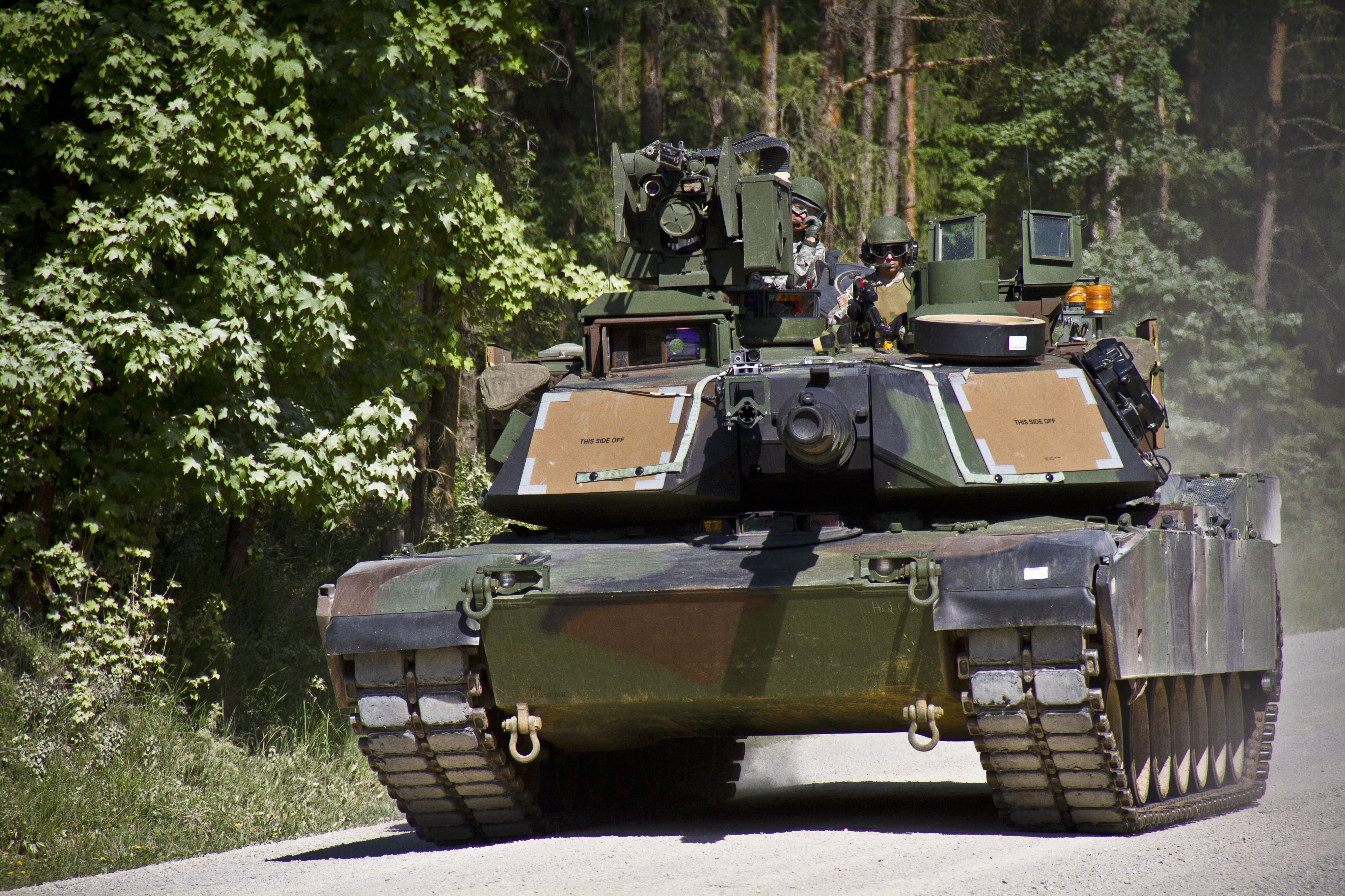 Lt. Col. Carter Price, Commander of the 2nd Bat., 5th Cavalry Reg, 1st Bde. Combat Team, 1st Cavalry Div. sights on a possible enemy target in his M1A2 SEP (System Enhanced Program) Abrams tank during Combined Resolve II. Combined Resolve II is a U.S. Army Europe-directed multinational exercise at the Grafenwoehr and Hohenfels Training Areas, including more than 4,000 participants from 14 allied and partner countries. The exercise features a combined arms battalion of the 1st Brigade, 1st Cavalry Division, the U.S. Army's Regionally-Aligned rotational brigade combat team that supports the U.S. Army's Regionally-Aligned rotational brigade combat team that supports the U.S. European Command for training and contingency missions. Unit: 139th Mobile Public Affairs Detachment